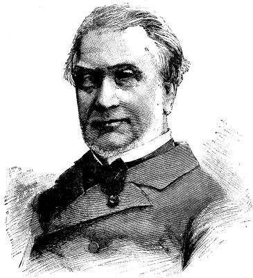 French naval architect Dupuy de Lome. 19th century print.